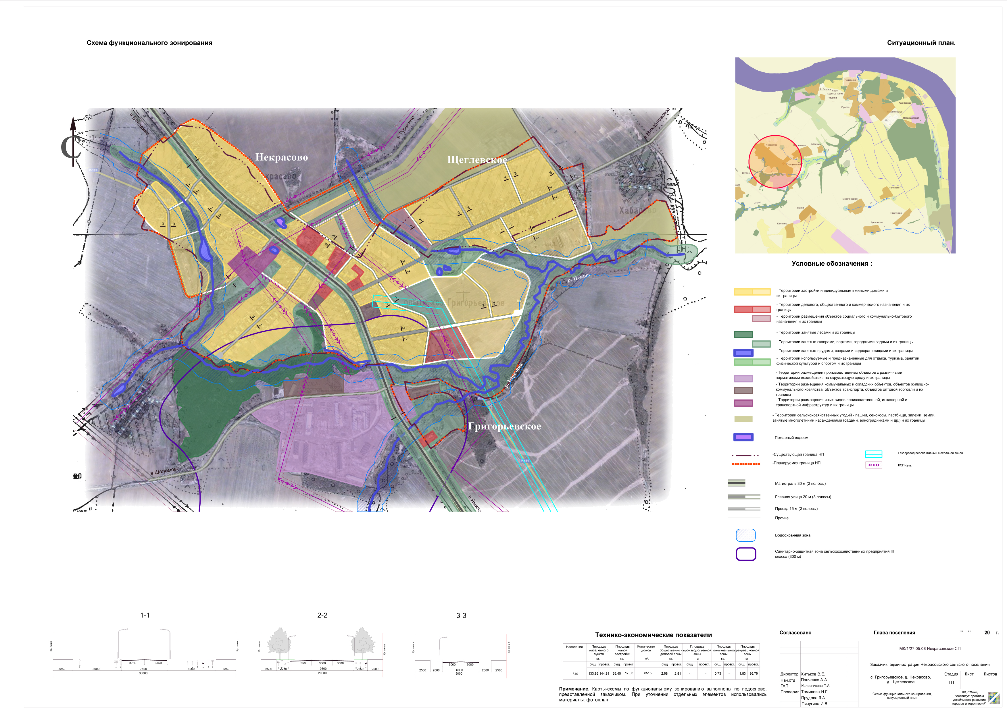 Zoning of Grigorievskoe. Nekrasovskoe rural settlement (Yaroslavl District) 2008